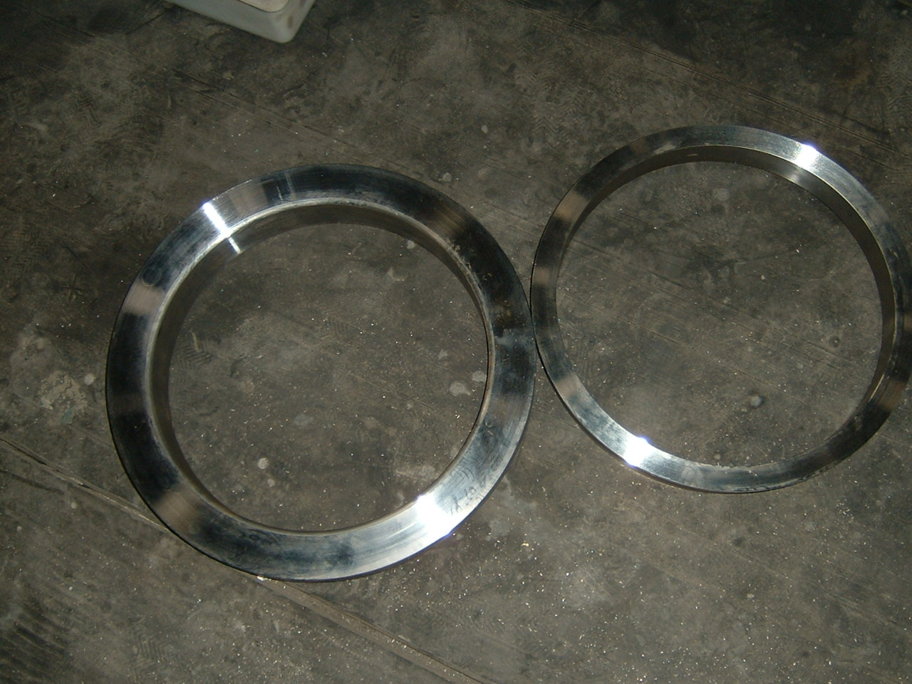 Gaskets for valves. Image taken for The Alloy Valve Stockist in Barcelona, Spain.